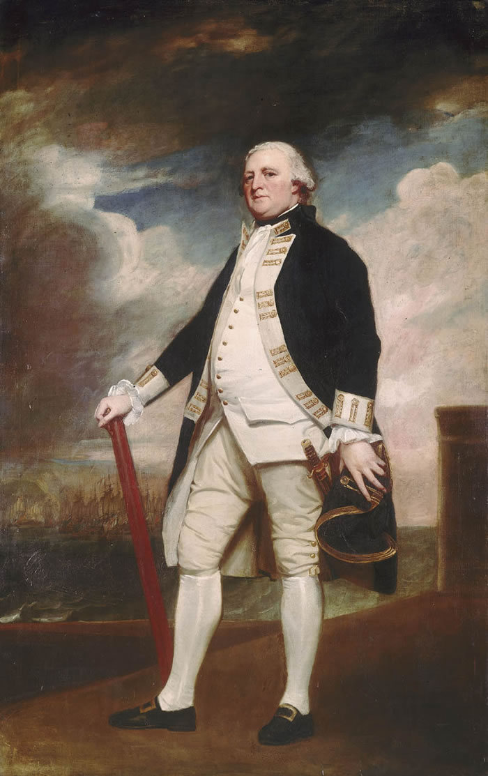 Portrait of Vice-Admiral George Darby, depicting the Relief of Gibralter, 1781, in the background